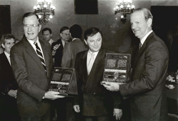 Hungarian Premier Miklos Nemeth presents President George H. W. Bush (left) and Secretary of State James Baker (right) with inscribed plaques containing a section of barbed wire removed from the Hungarian-Austrian border.